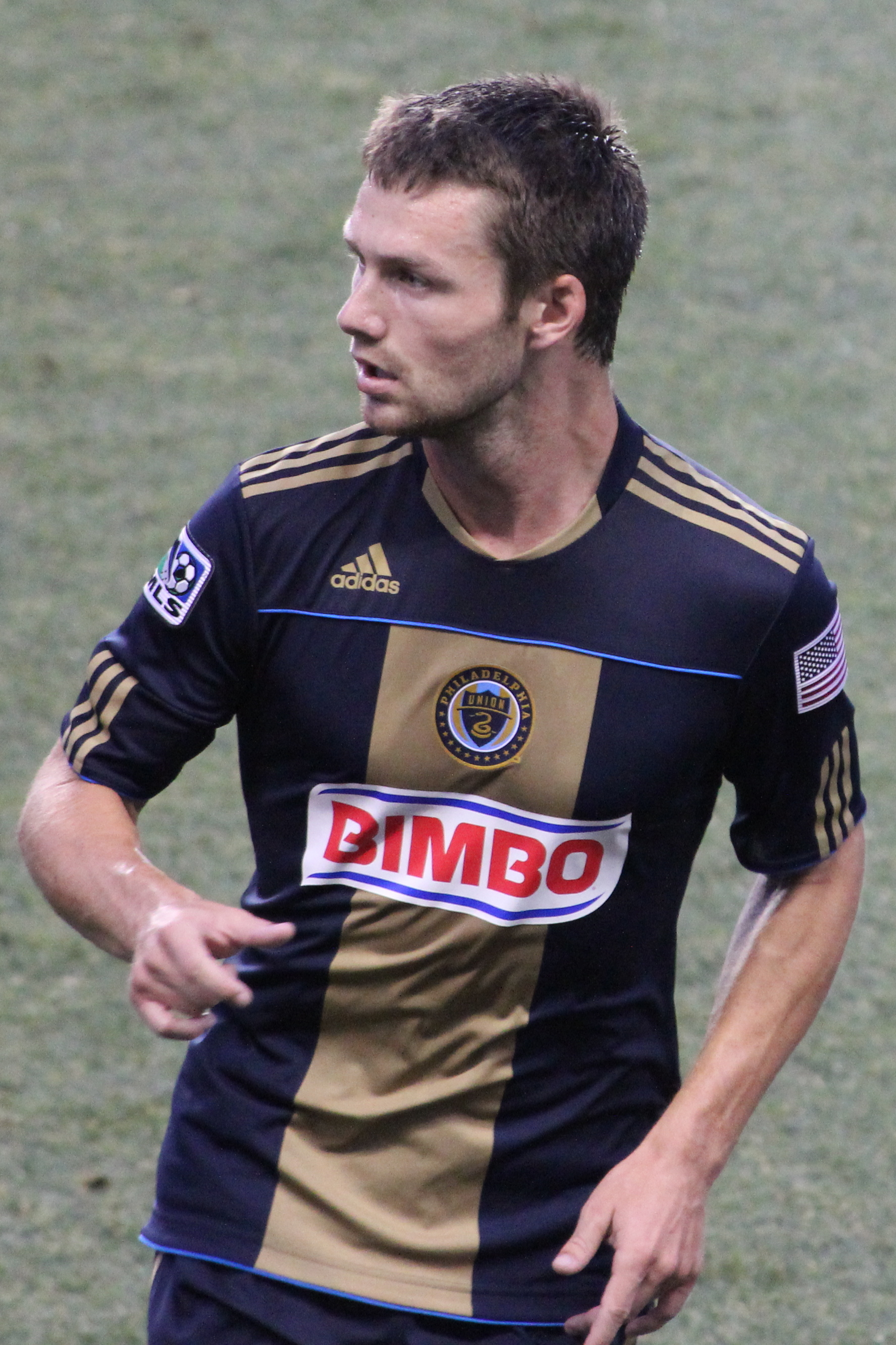 Jack McInerney with the shirt of Philadelphia Union